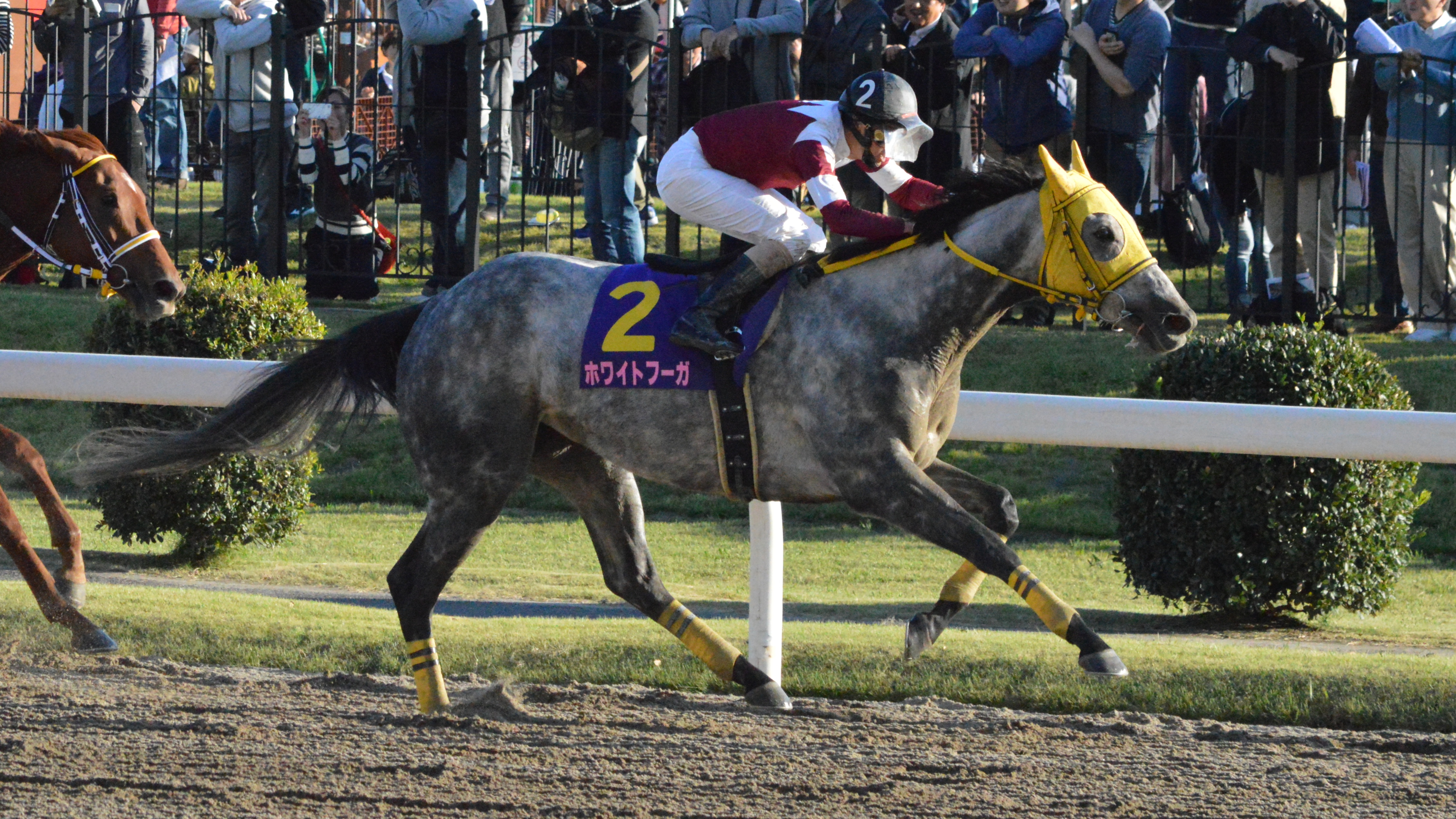 Japanese race horse White Fugue at Kawasaki racecourse. Kawasaki (JPN) 3 Nov 2016JBC Ladies Classic (Local Grade 1) (Dirt) (3yo+) 1m Muddy RankHorse NameOddsAgeWgtJockeyTrainer1stWhite Fugue (JPN) 6/5FF48-9Masayoshi EbinaNoboru Takagi2ndLet's Go Donki (JPN)51/10F48-9Yasunari IwataTomoyuki UmedaOthers are omitted. (13 horses entered in a race.)